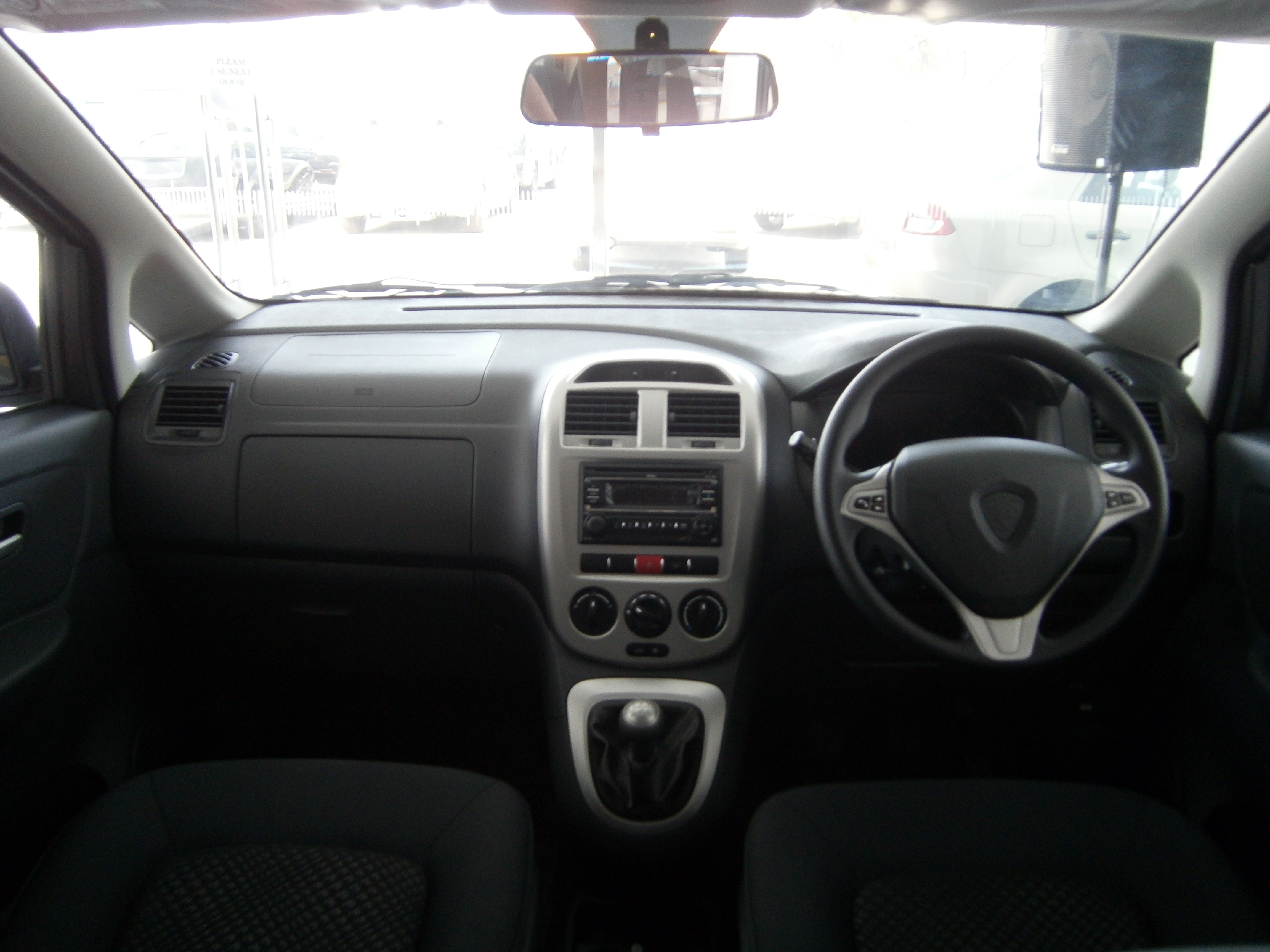 2014 Proton Exora Bold CFE Standard interior. Designed & Assembled in Malaysia